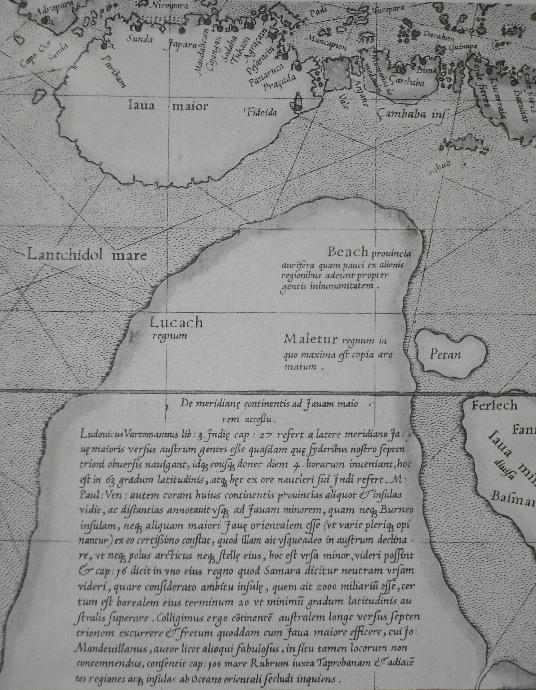 De Meridianae Continentis ad Javam Majorem accessu. Nova et Aucta Orbis Terrae Descriptio ad Usum Navigantium Emendata, Gerardus Mercator, 1569